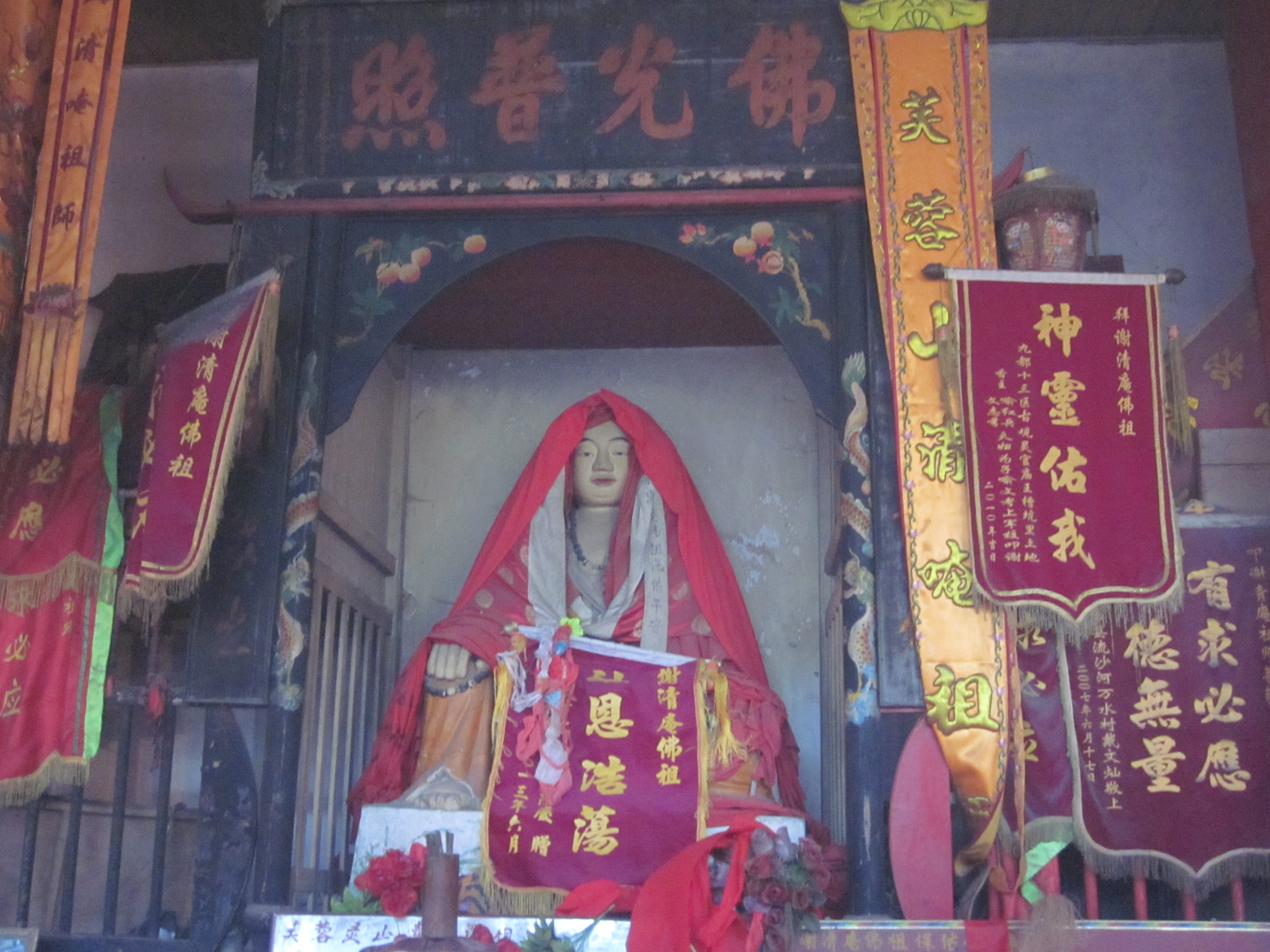 Puji Temple (Chinese: 普济寺; pinyin: Pǔjì sì) is a Buddhist temple located in Qing Shanqiao Town,Ningxiang County,Changsha City,Hunan province, China.中文（中国大陆）: 普济寺，位于湖南省长沙市宁乡县青山桥镇芙蓉山。前身为元朝的芙蓉庵，是大乘佛教禅宗沩仰宗寺庙之一。